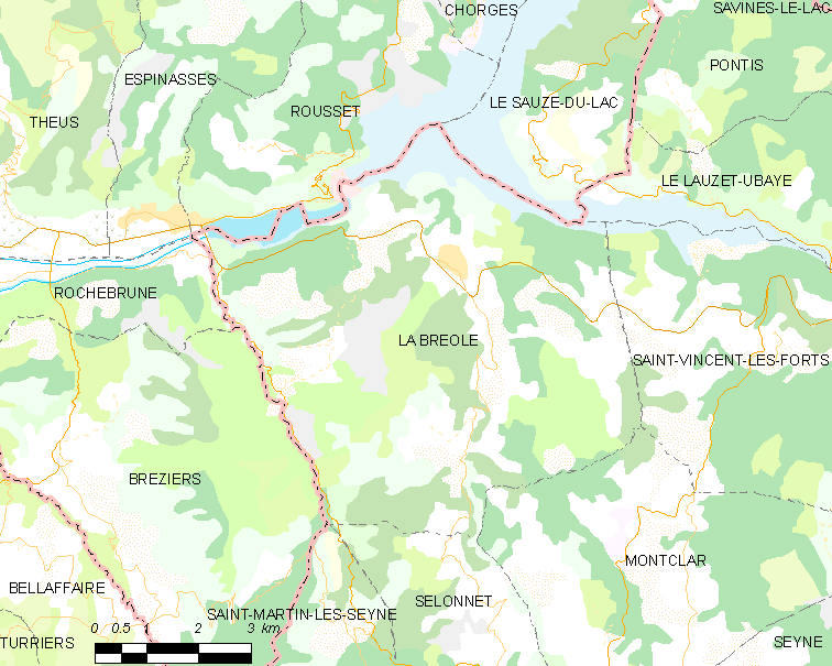 Map commune FR insee code 04033.png Légende